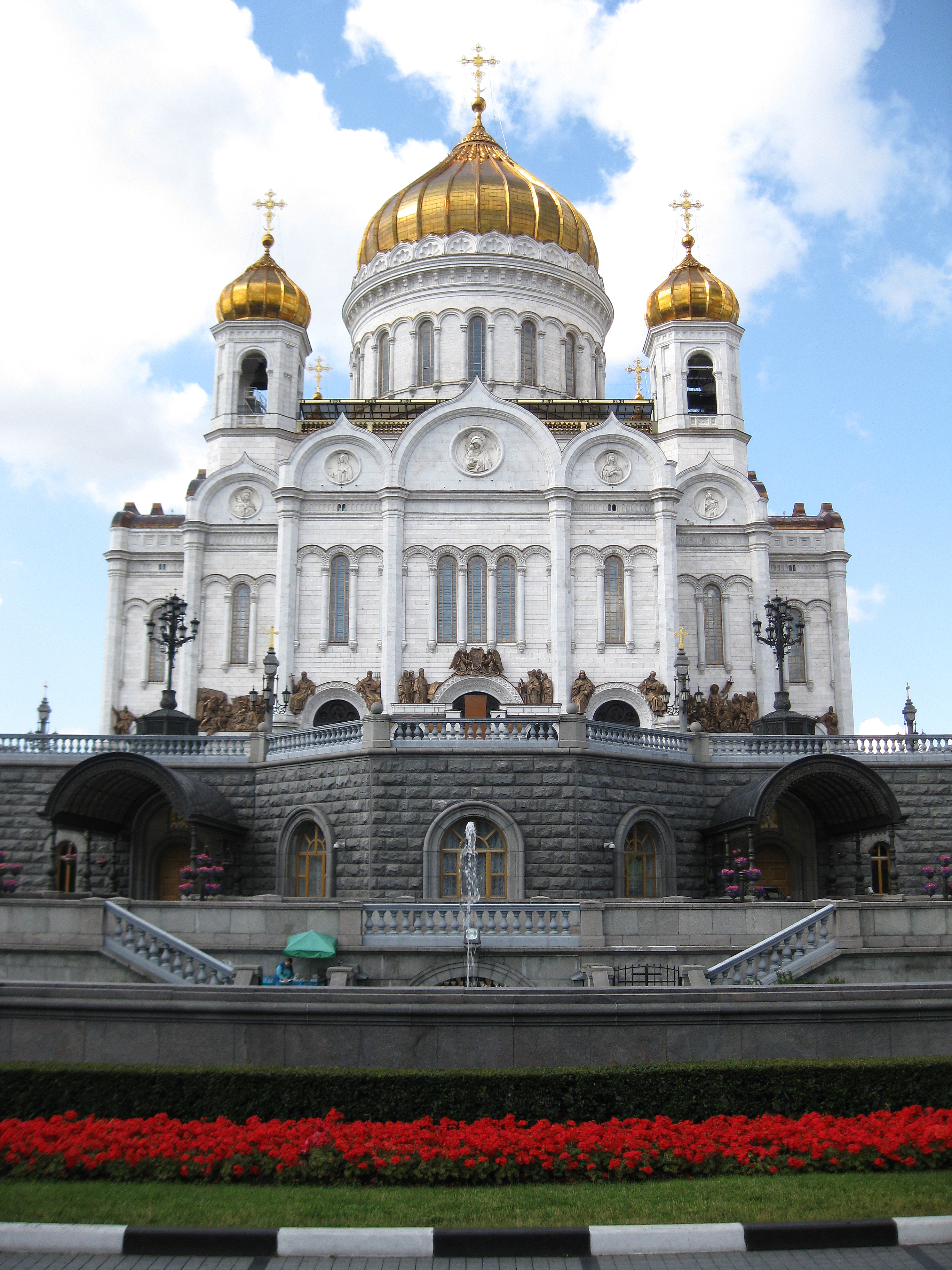 Eastern facade of the Cathedral of Christ the Savior, seen from the surrounding park.